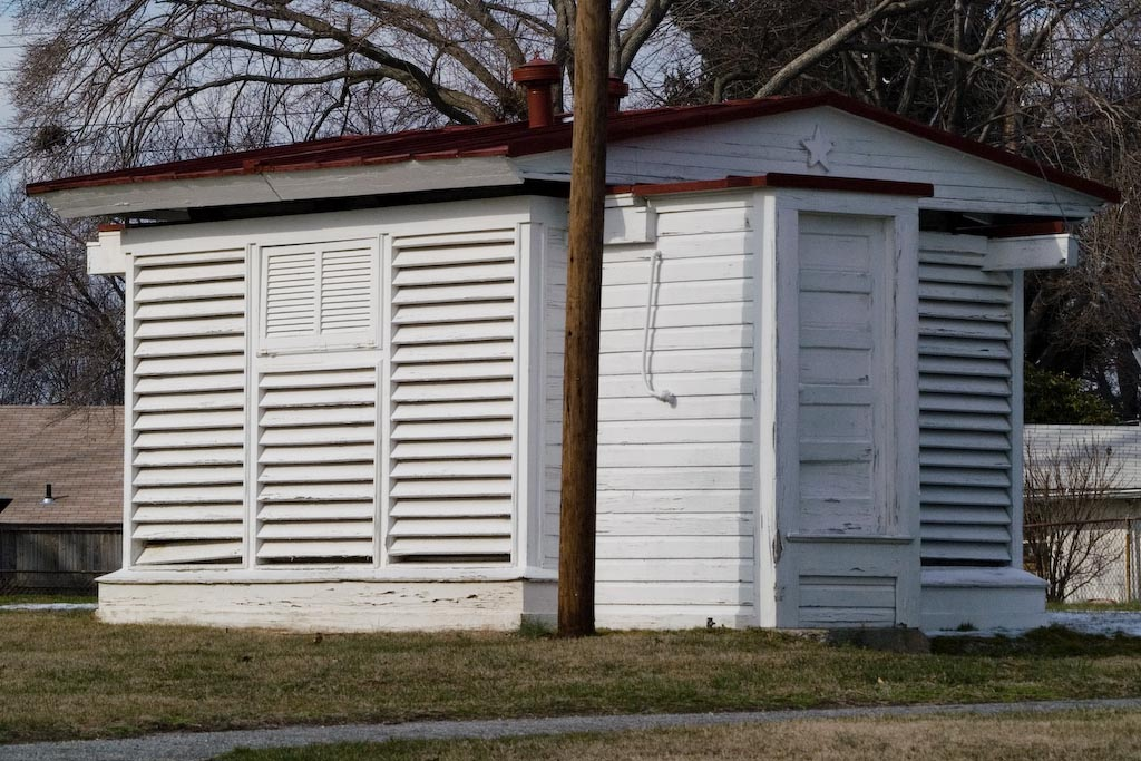 Photograph of the Gaithersburg Latitude Observatory